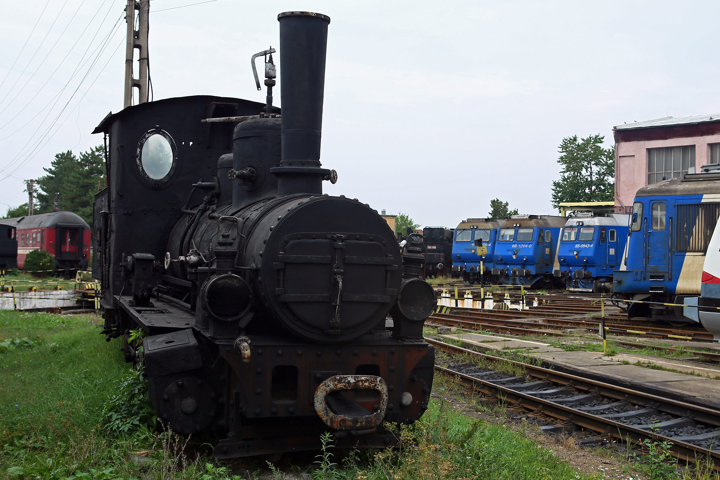 Narrow gauge steam engine CFR 388 002 (built 1896 in Wiener Neustadt) stored in Sibiu's main railway depot